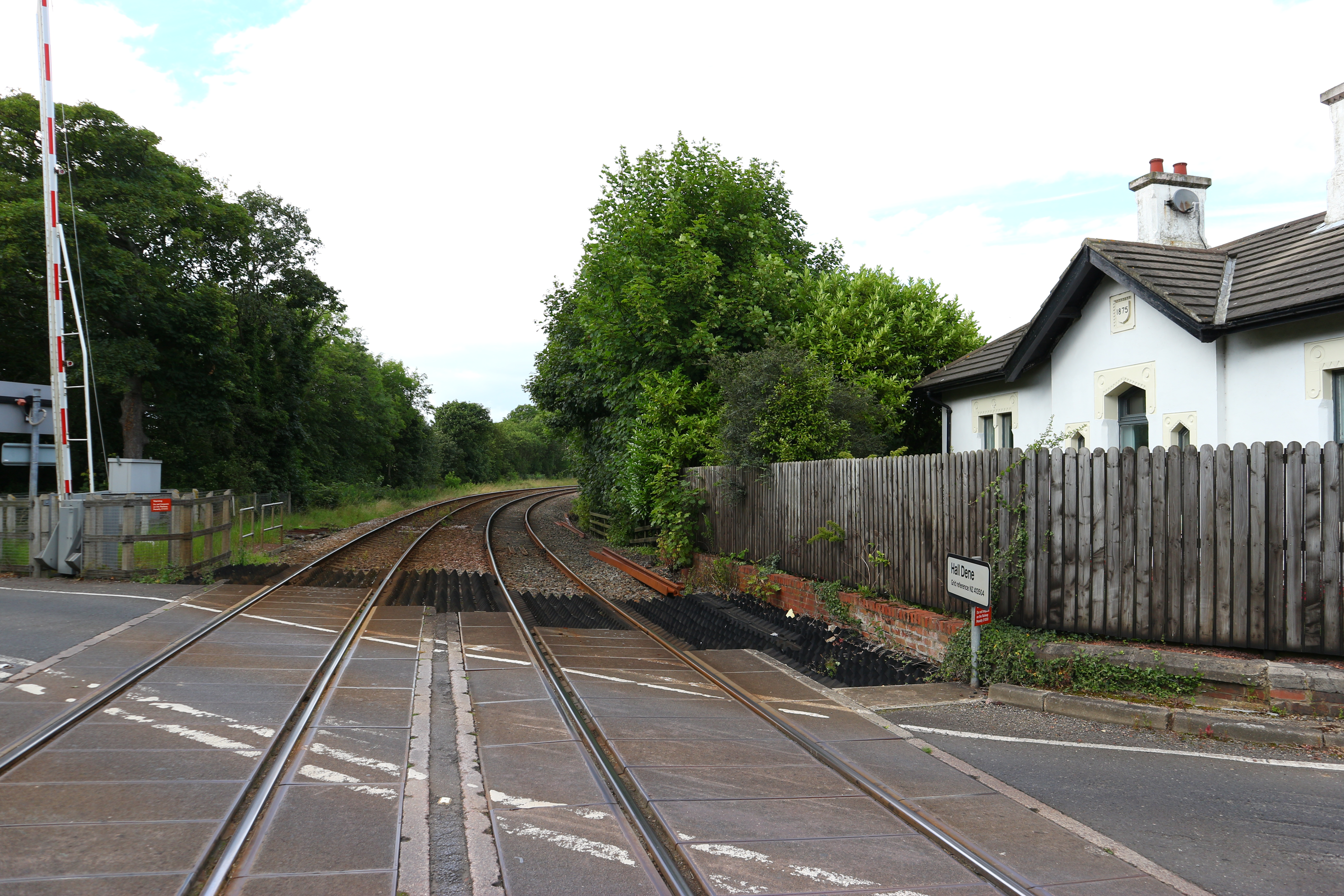 View north along the Durham Coast Line. The the platforms of Seaham Hall Dene railway station were located in the centre of the image (on either side of the tracks) whilst the building in the right of the image was the main station building. The photograph is taken from Hall Dene Level Crossing which carries Lord Byron's Walk over the line, looking towards Ryhope. Seaham Hall Dene railway station was a private station built to serve Seaham Hall, the then home of the Marquess of Londonderry. It closed in 1923.